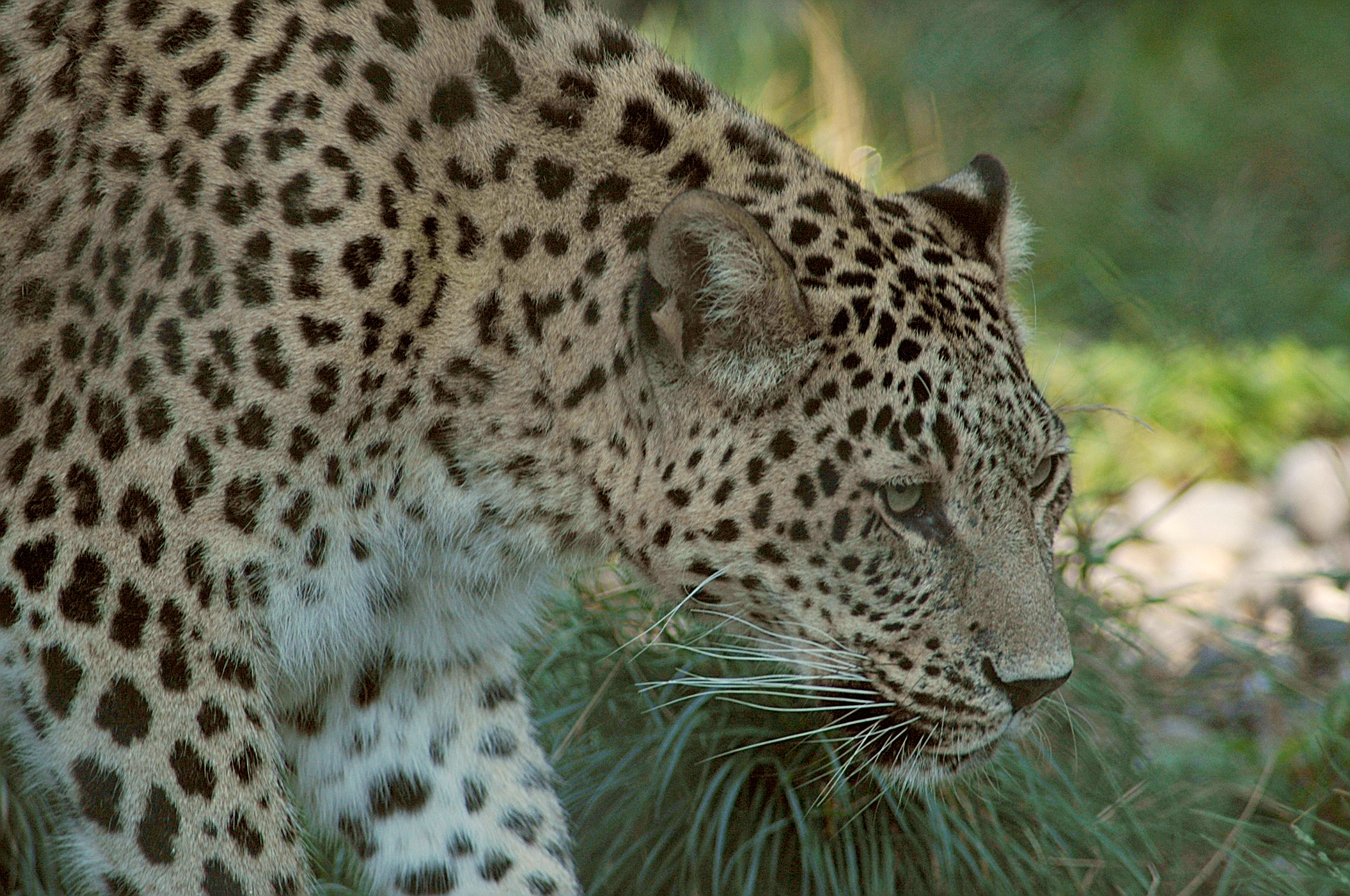 Persian Leopard